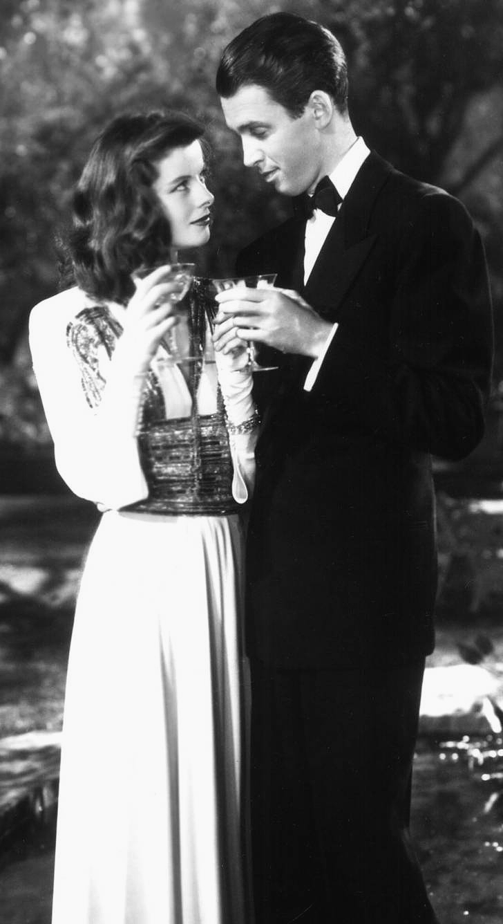 Cropped section of a publicity photograph for the 1940 film The Philadalphia Story, featuring its stars Katharine Hepburn and James Stewart. Such images were taken on set during filming, or as part of an organized photo-shoot, by a studio photographer. They were then disseminated to the public and the media for widespread promotion (see Film still). Public domain explanation The full photograph does not clearly contain the copyright symbol ©, the word "Copyright", or the abbreviation "Copr.", as then required for copyright. If one looks at other film stills from The Philadelphia Story where a stock code can be seen, none of these include a copyright notice: [1] [2] [3] This suggests that none of the production stills for the film were published with a copyright notice. By publishing a photograph without such a notice, under the terms of the 1909 Copyright Act (which was law until 1978) the image went into the public domain. If there is any chance that the photograph was copyrighted, under the terms of the 1909 Copyright Act it would have had to be renewed 28 years after publication. A search for copyright renewal records of 1968 ([4], [5]) reveal no trace that this occurred. Film industry author Gerald Mast has written: "According to the old copyright act, such production stills were not automatically copyrighted as part of the film and required separate copyrights as photographic stills ... Most studios have never bothered to copyright these stills because they were happy to see them pass into the public domain, to be used by as many people in as many publications as possible." (Film Study and the Copyright Law (1989) p. 87.)